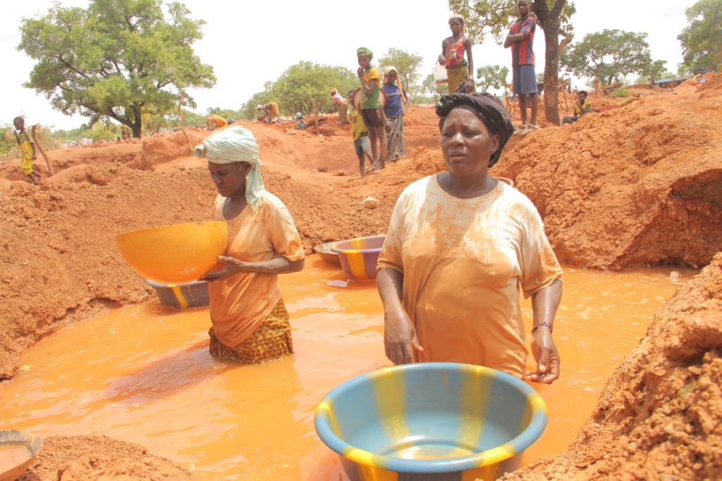 Femmes au travail en pleine zone minière au Mali This is an image of "African people at work" from Mali